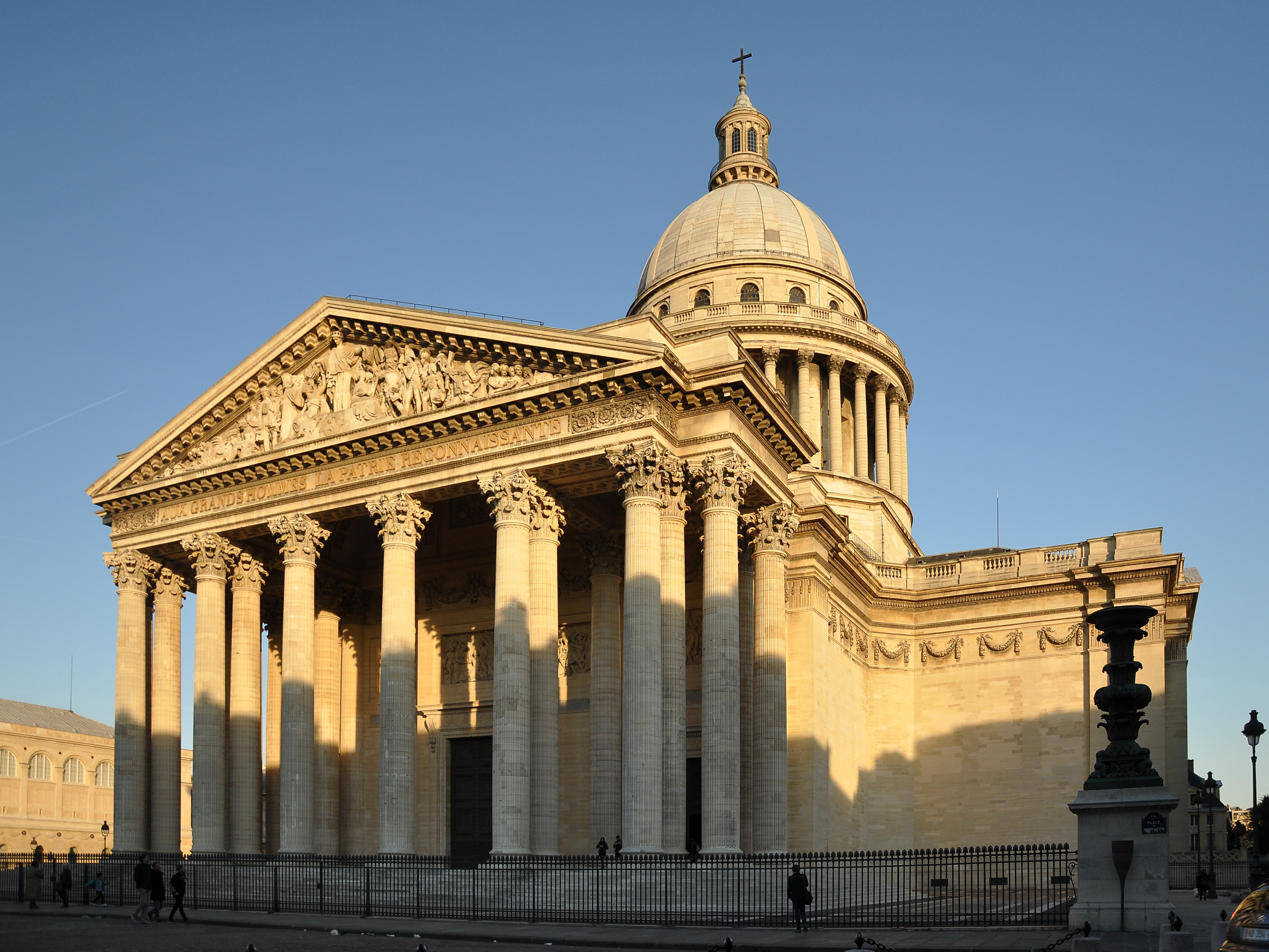 Pantheon of Paris located in the 5th arrondissement of Paris, France.